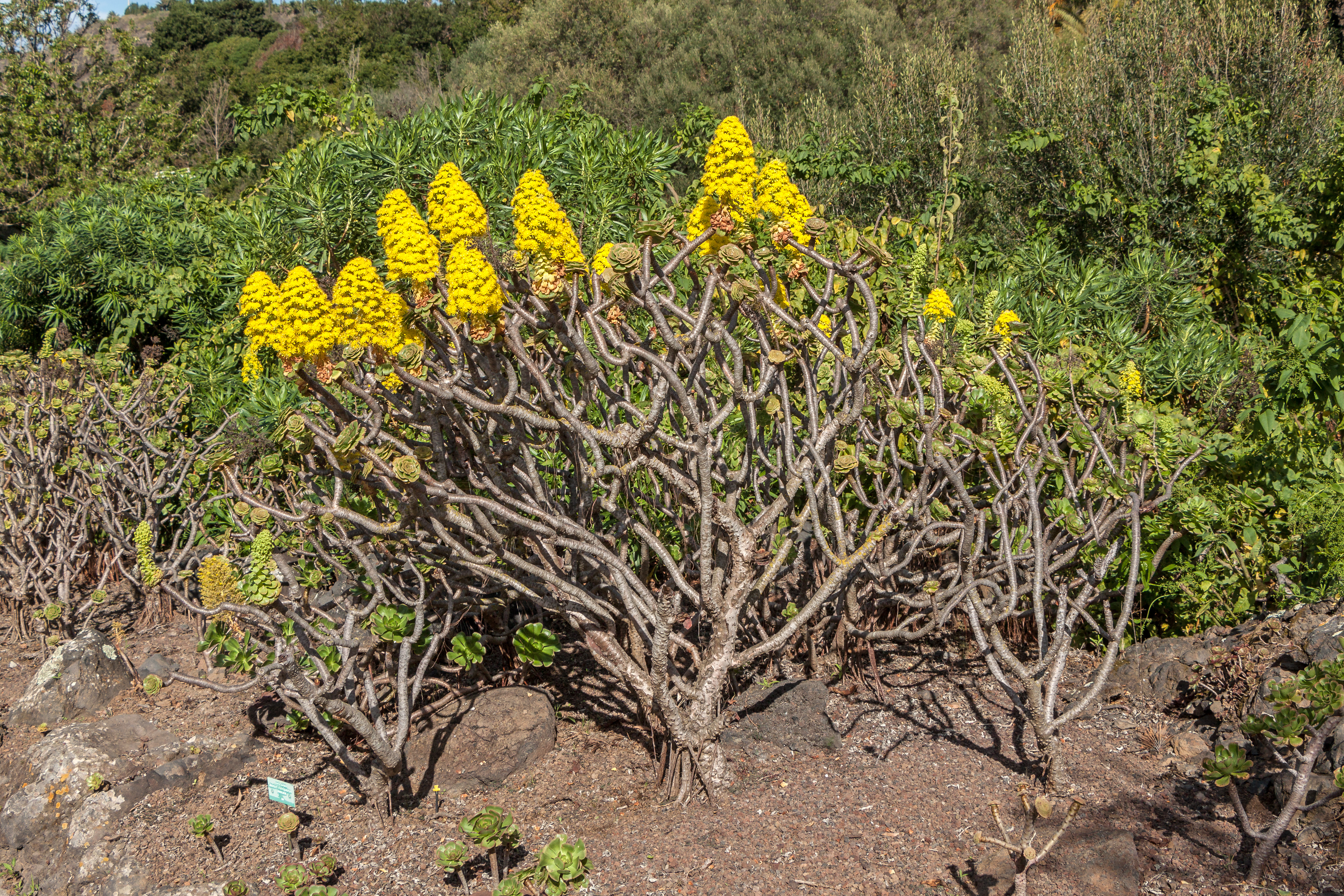 Aeonium arboreum (L.) Webb & Berthel., Tree Houseleek; Habitus; Jardín Botánico Canario Viera y Clavijo, Gran Canaria, Canary Islands, Spain.